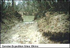 Elkins Ferry, Arkansas -- site of the Civil War battle of the same name.